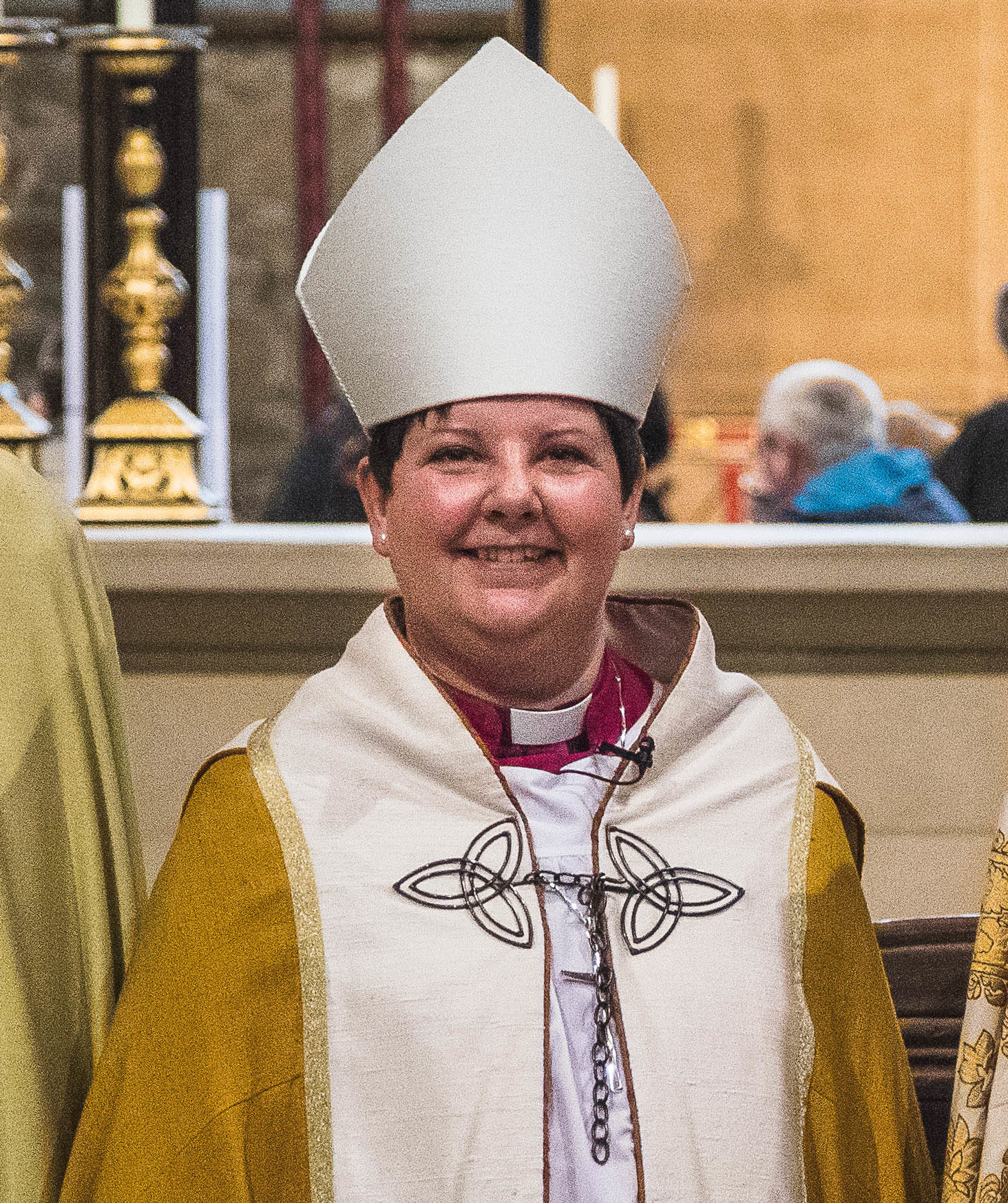 The Venerable Dr Christopher Cunliffe, Archdeacon of Derby; the Rt Revd Jan McFarlane, Bishop of Repton; the Rt Revd Dr Alastair Redfern, Bishop of Derby; the Venerable Carol Coslett, Archdeacon of Chesterfield and the Very Revd Stephen Hance, Dean of Derby. Photograph taken at the Collation and Commissioning Service for the eighth Archdeacon of Chesterfield at the parish church of Chesterfield, St Mary and All Saints - the Crooked Spire - on Saturday, 10 March 2018